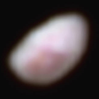 Pluto’s moon Nix, shown here in enhanced color as imaged by the New Horizons Ralph instrument, has a reddish spot that has attracted the interest of mission scientists. The data were obtained on the morning of July 14, 2015 and received on the ground on July 18. At the time the observations were taken New Horizons was about 102,000 miles (165,000 km) from Nix. The image shows features as small as approximately 2 miles (3 kilometers) across on Nix, which is estimated to be 26 miles (42 kilometers) long and 22 miles (36 kilometers) wide.